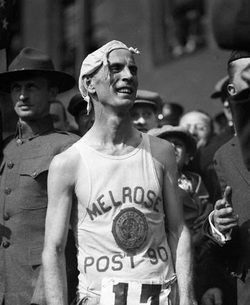 Clarence DeMar, Athlet and medalwinner at the 1924 Olympic Games photography, reproduction, no restrictions on use Copyright: free of charges